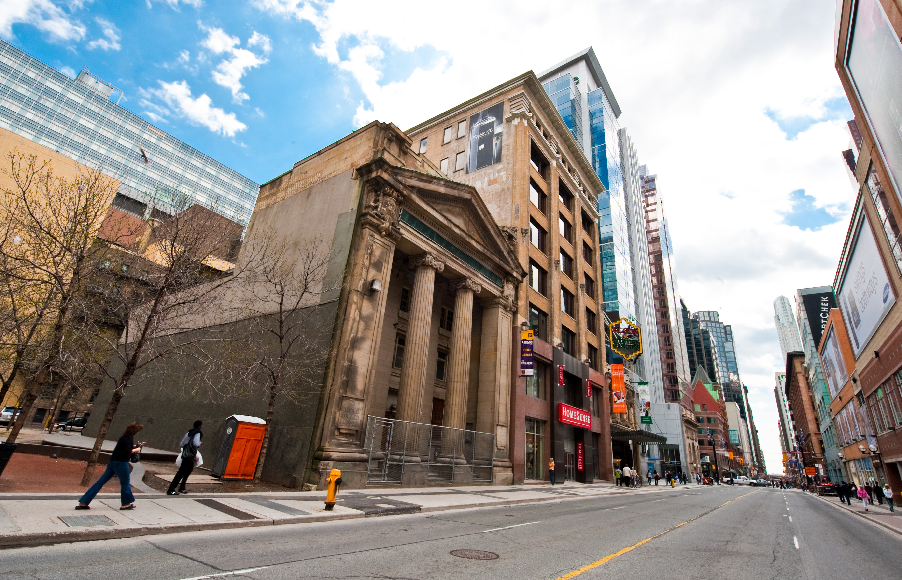 Yonge Street, south of Shuter Street, looking south. Toronto, Canada.